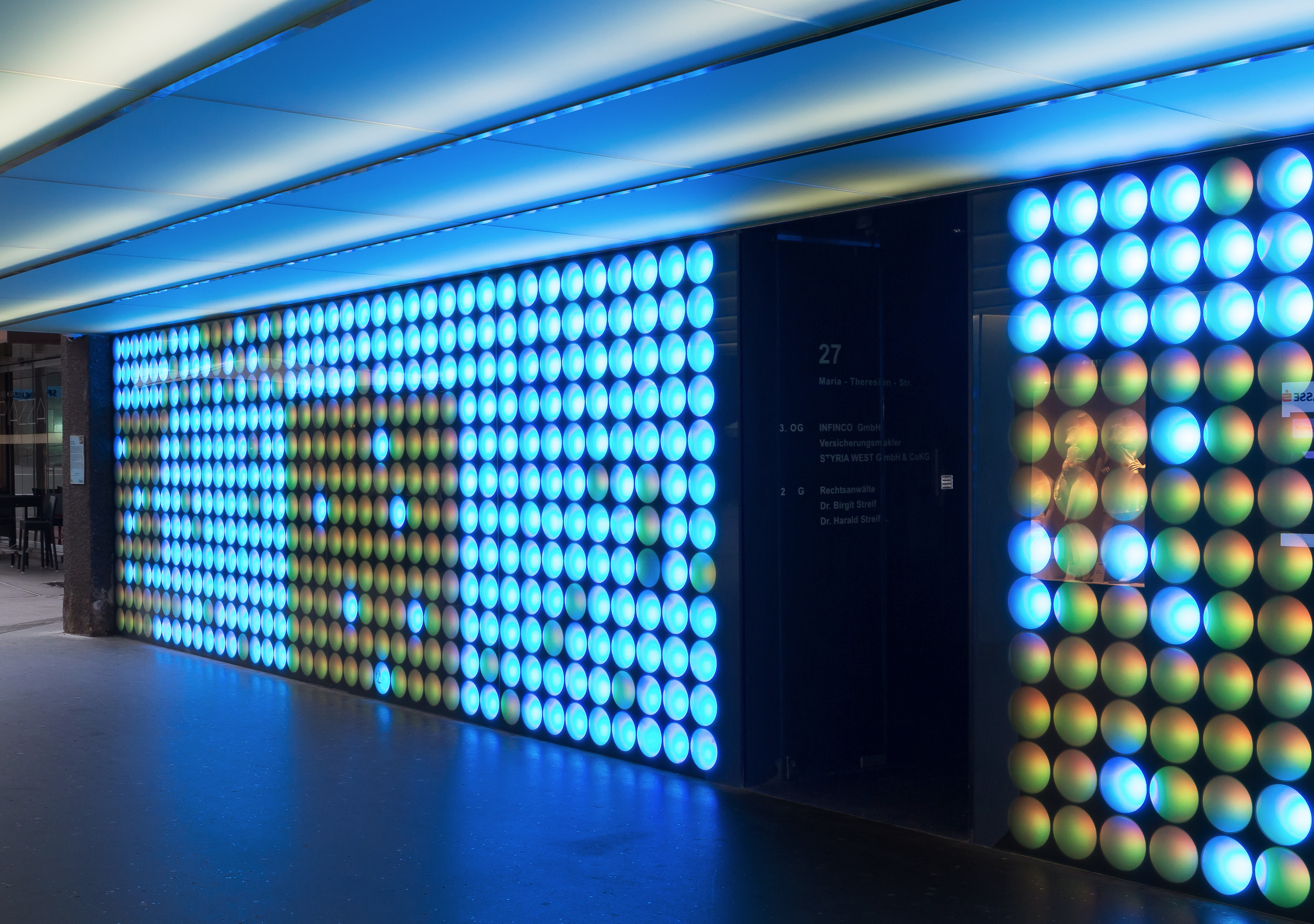 Innsbruck, passage from Maria-Theresien-Straße to Sparkassenplatz, light installation 47,16° north by Peter Sandbichler